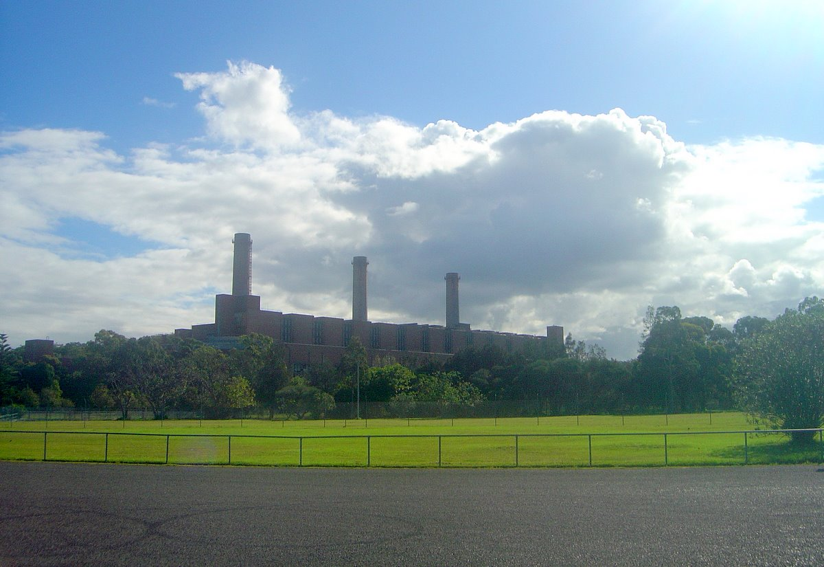 The disused Wangi Power Station, Wangi Wangi, NSW, Australia.